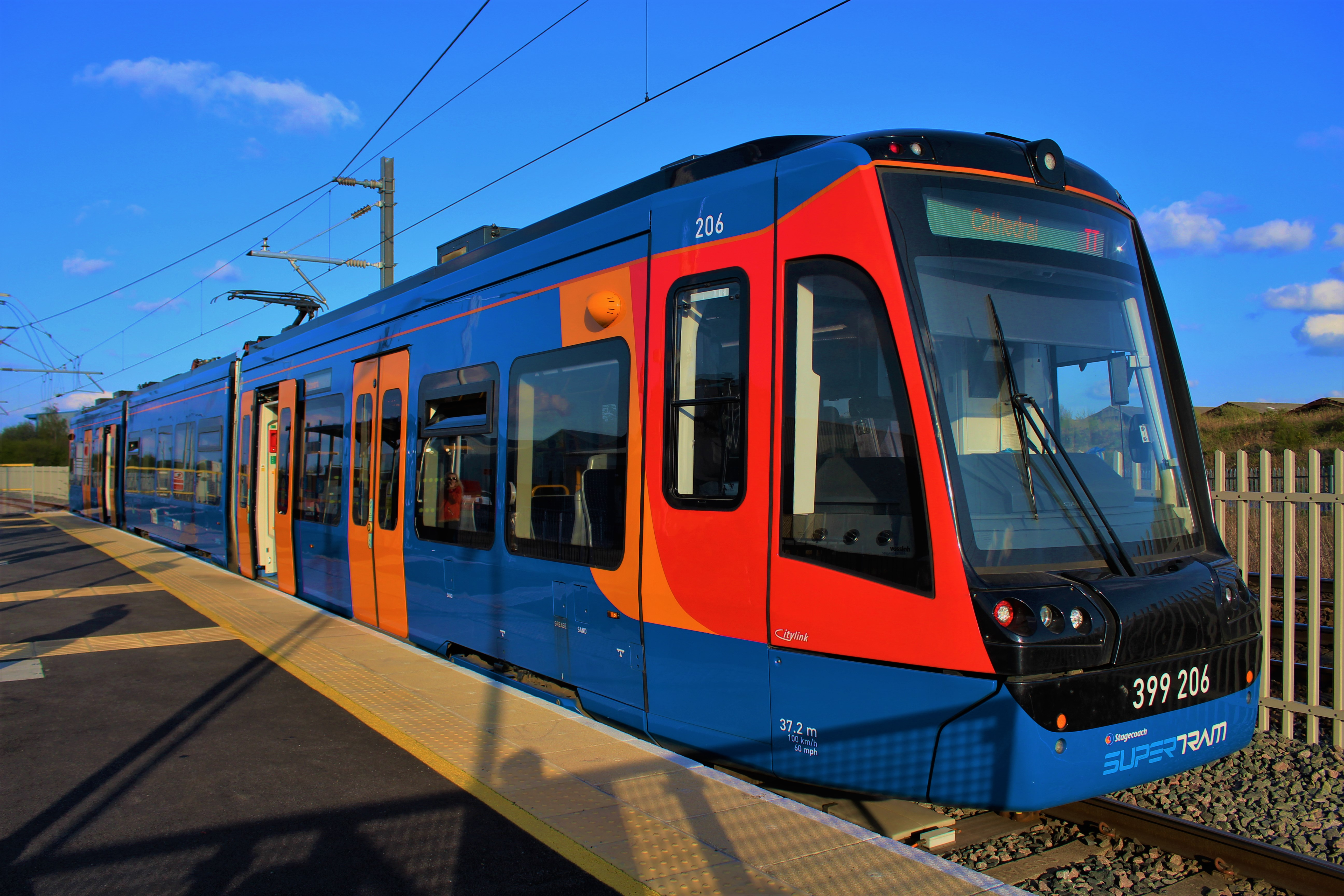 Sheffield Supertram tram-train no. 399206 at Rotherham Parkgate terminus on 13 April 2019.